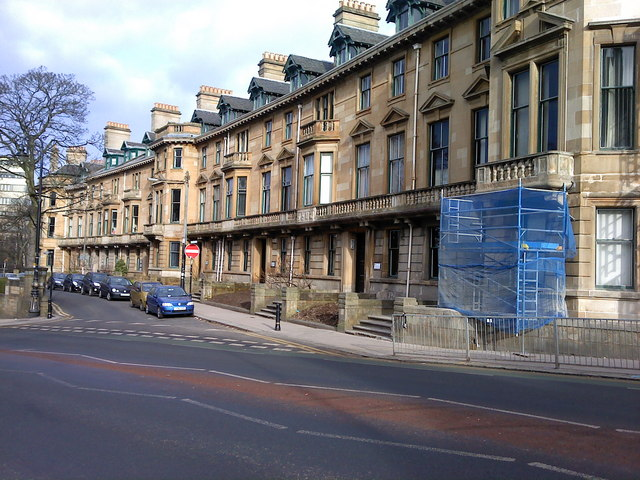 University Gardens This terrace was gradually adapted for use by University departments in the 1960's.